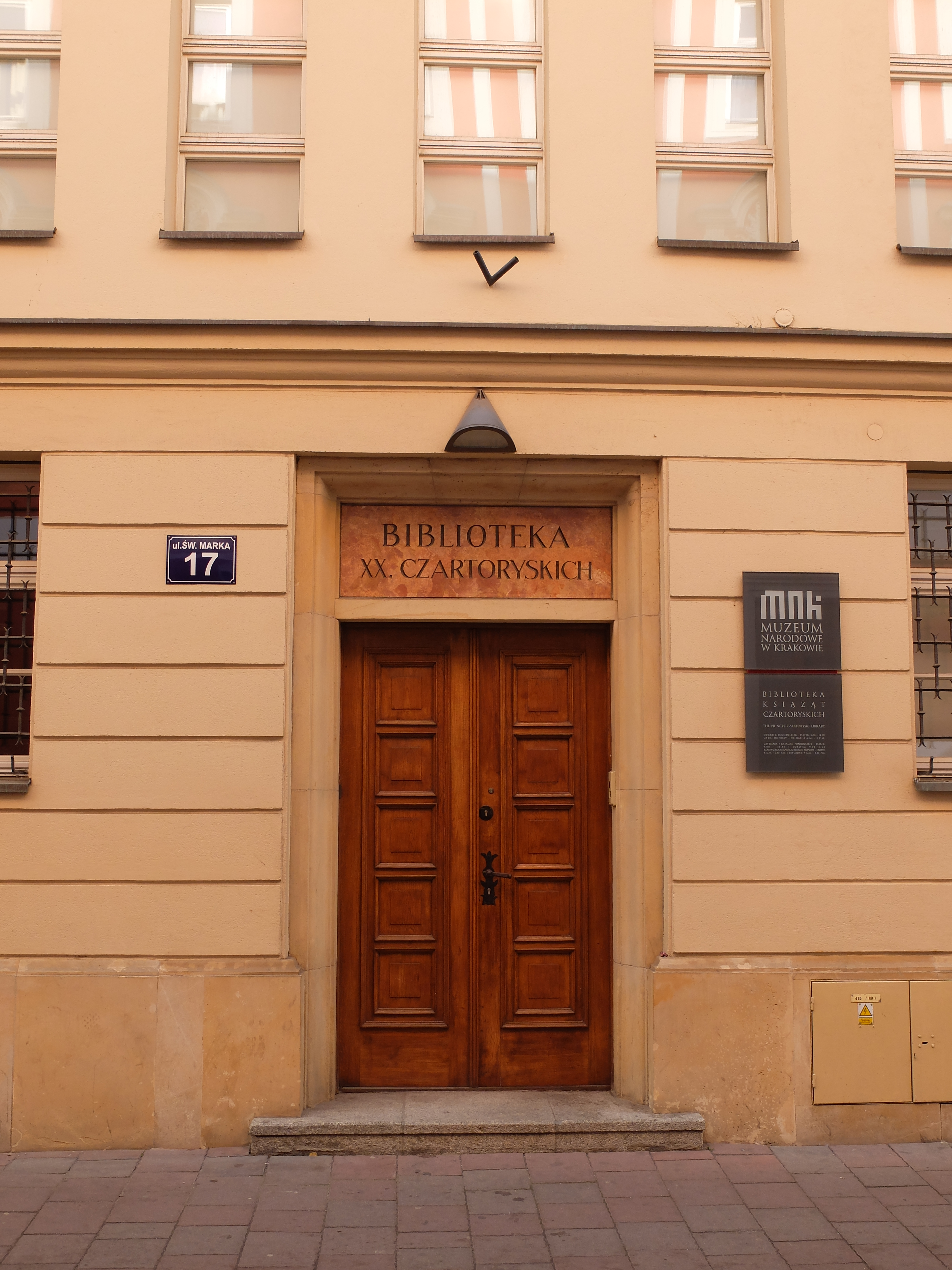 17 Świętego Marka Street in Kraków, Czartoryski Library, National Museum in Kraków